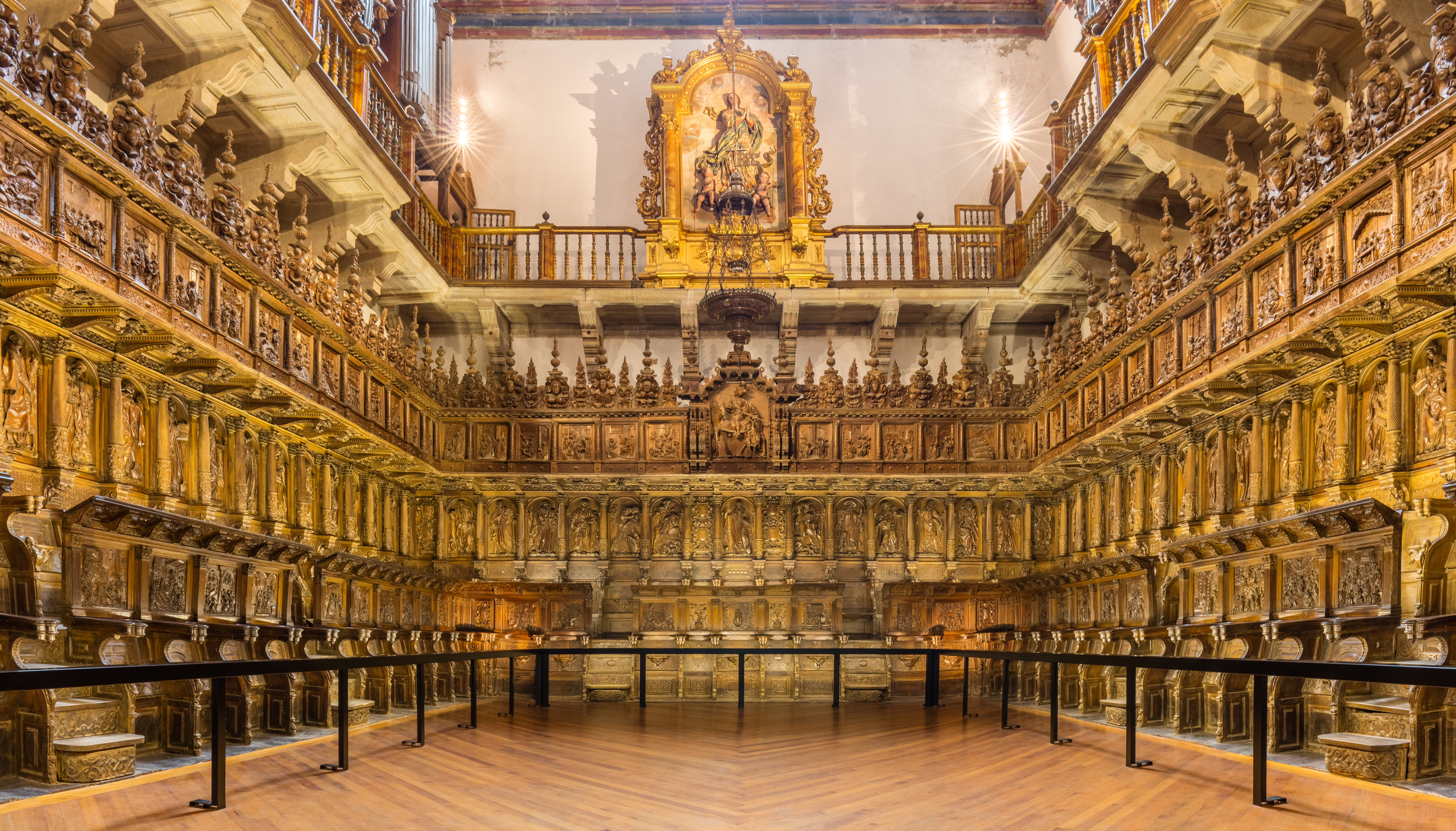 San Martin Monastery, Santiago de Compostela, Spain